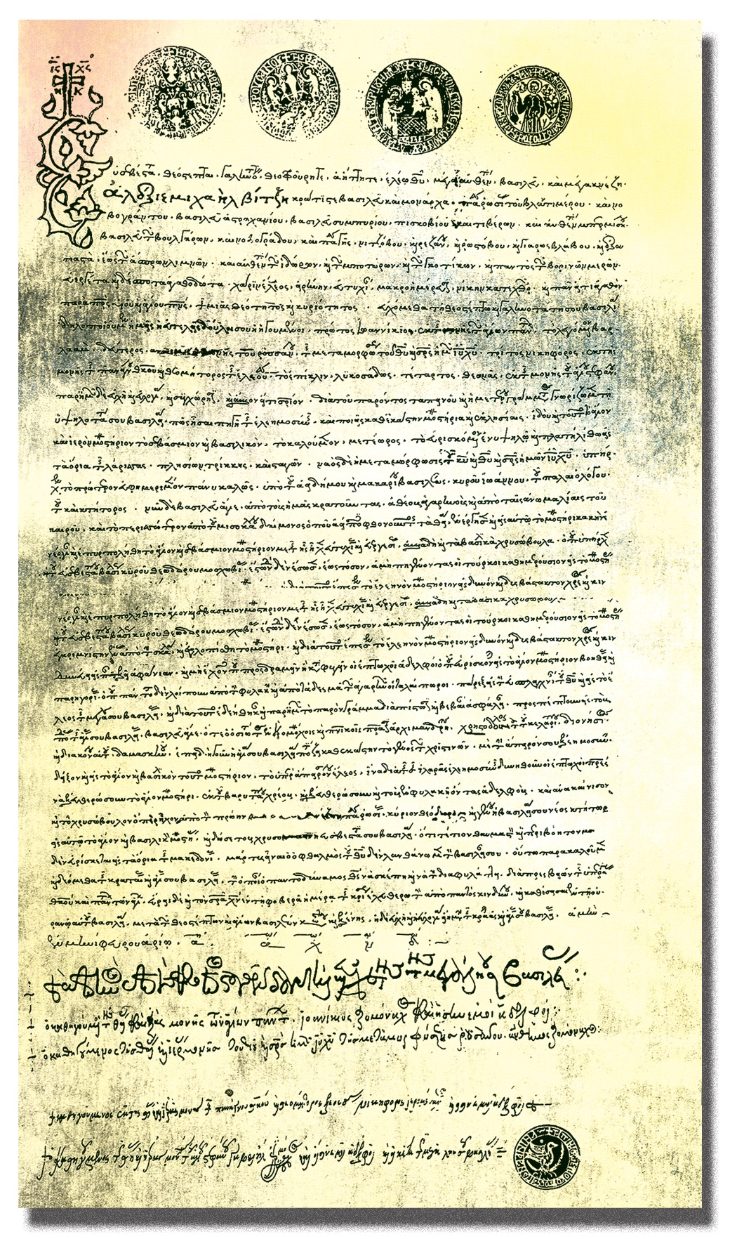 The gramota of the four monasteries under the jurisdiction of the Ohrid Archbishopric, to the Russian Czar Aleksej M. Romanov, asking for material support for the reconstruction of the monasteries, and moral support to strengthen the Church (February 4) 1654) This media file is produced by Wikipedian in Residence in Category:Wikipedian in Residence at DARM in 2016.